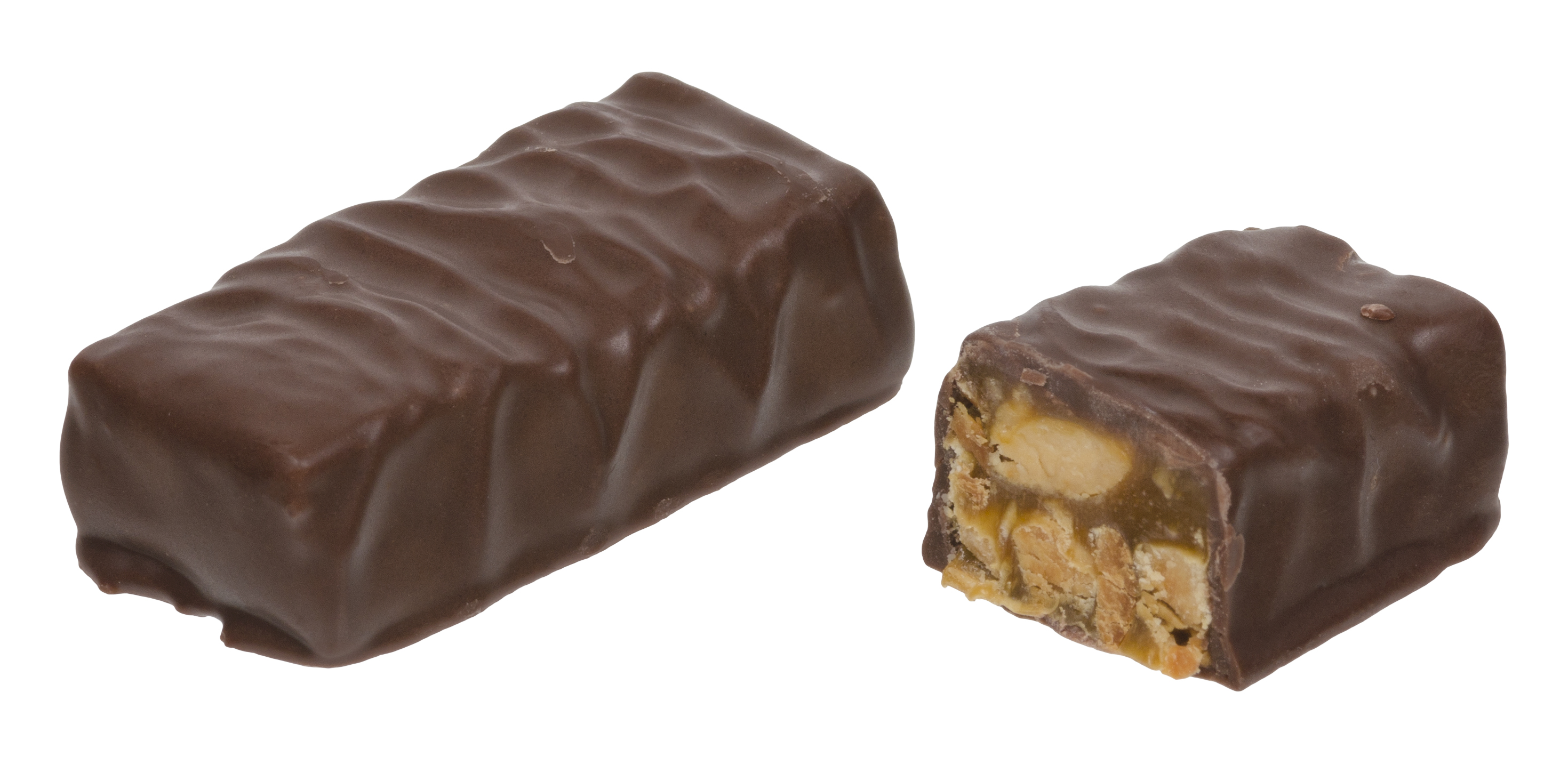 Original Goldenberg's Peanut Chews, a dark chocolate and peanut candy produced in America by Just Born candy.